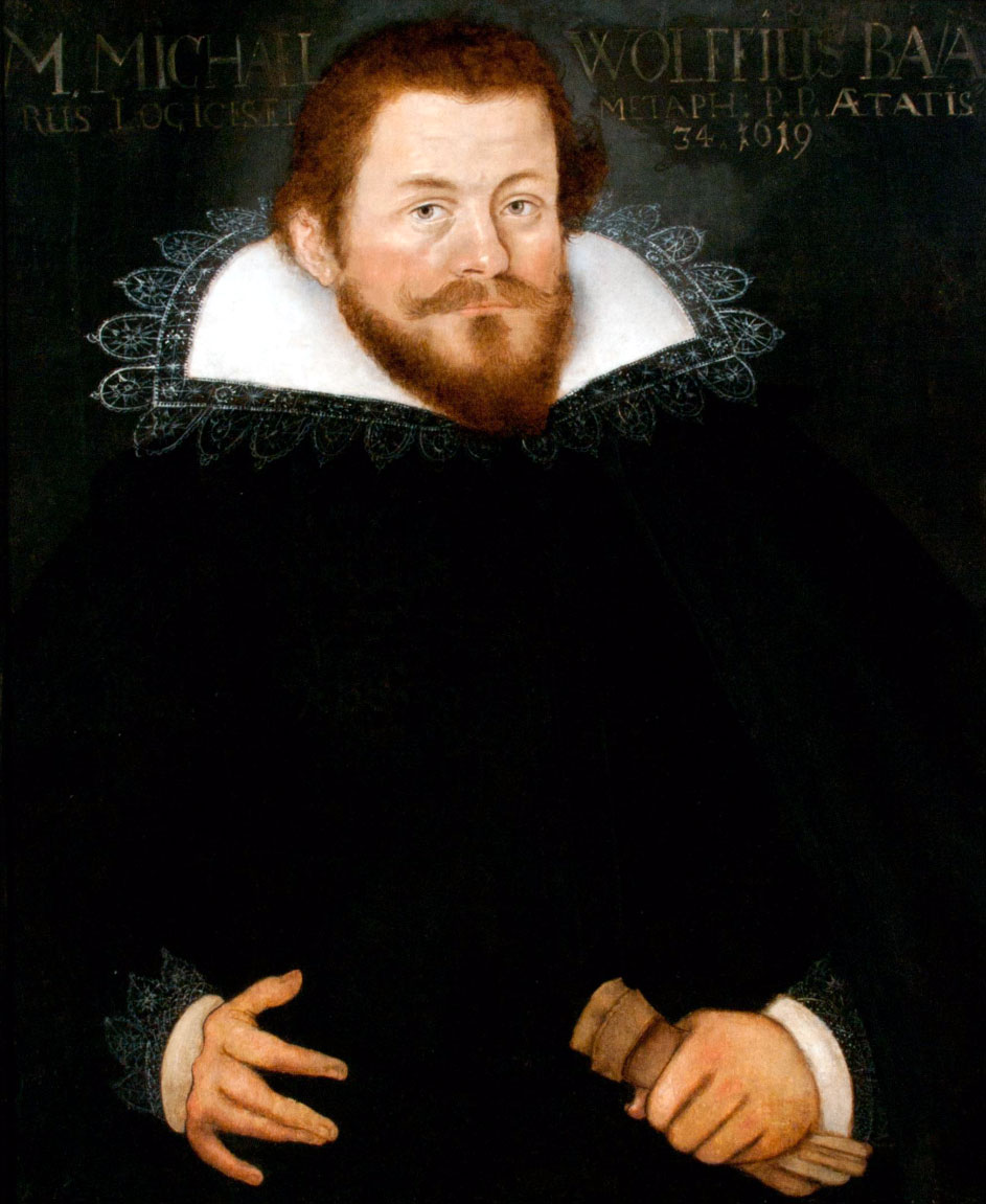 Michael Wolf (1587-1623) German mathematician, physicist, logicians and metaphysicians